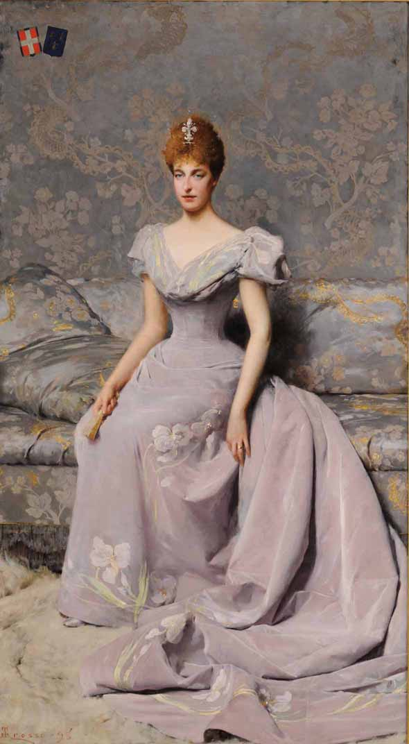 Hélène of Orléans, duchess of Aosta